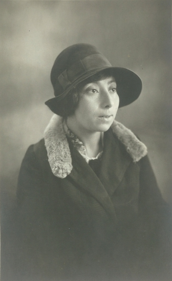 Ida Maze